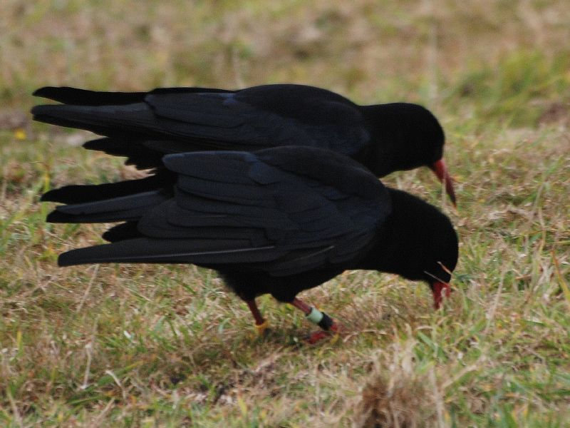 Is this a couple? Will they breed here next year? We'll see... Yes, they have been reported, for talking too much